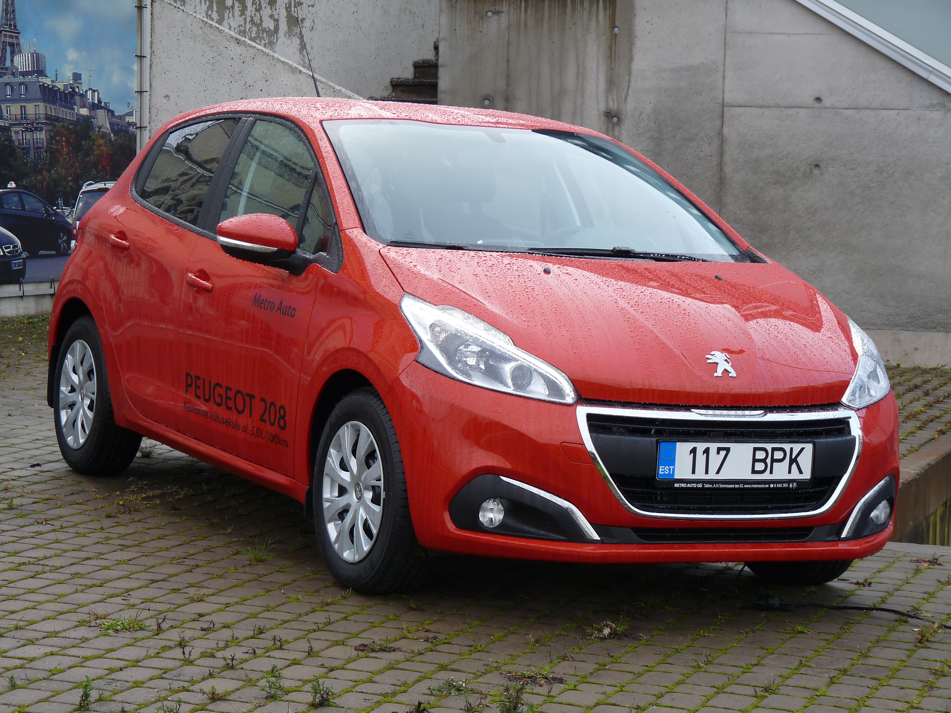 Peugeot 208 in Tallinn, Estonia